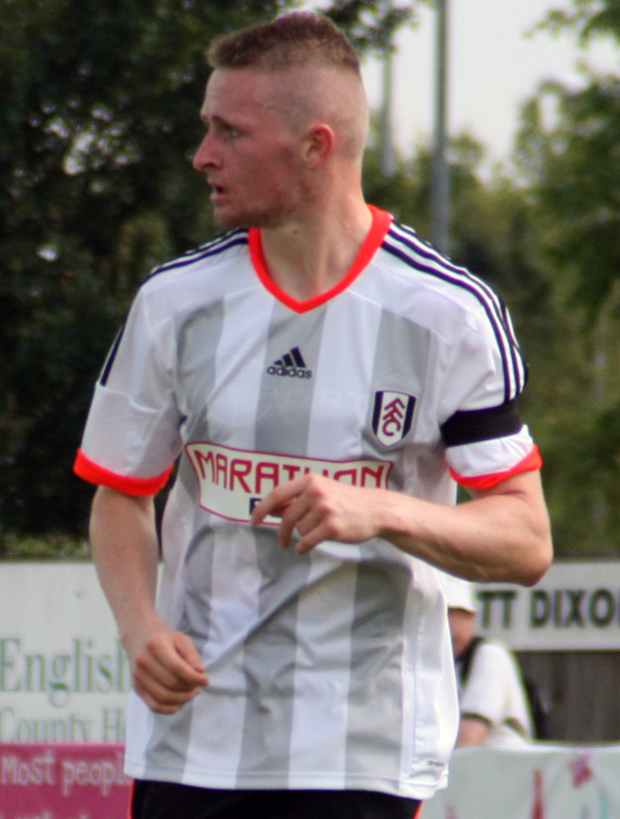 Tom Richards in action for Fulham in July 2014.